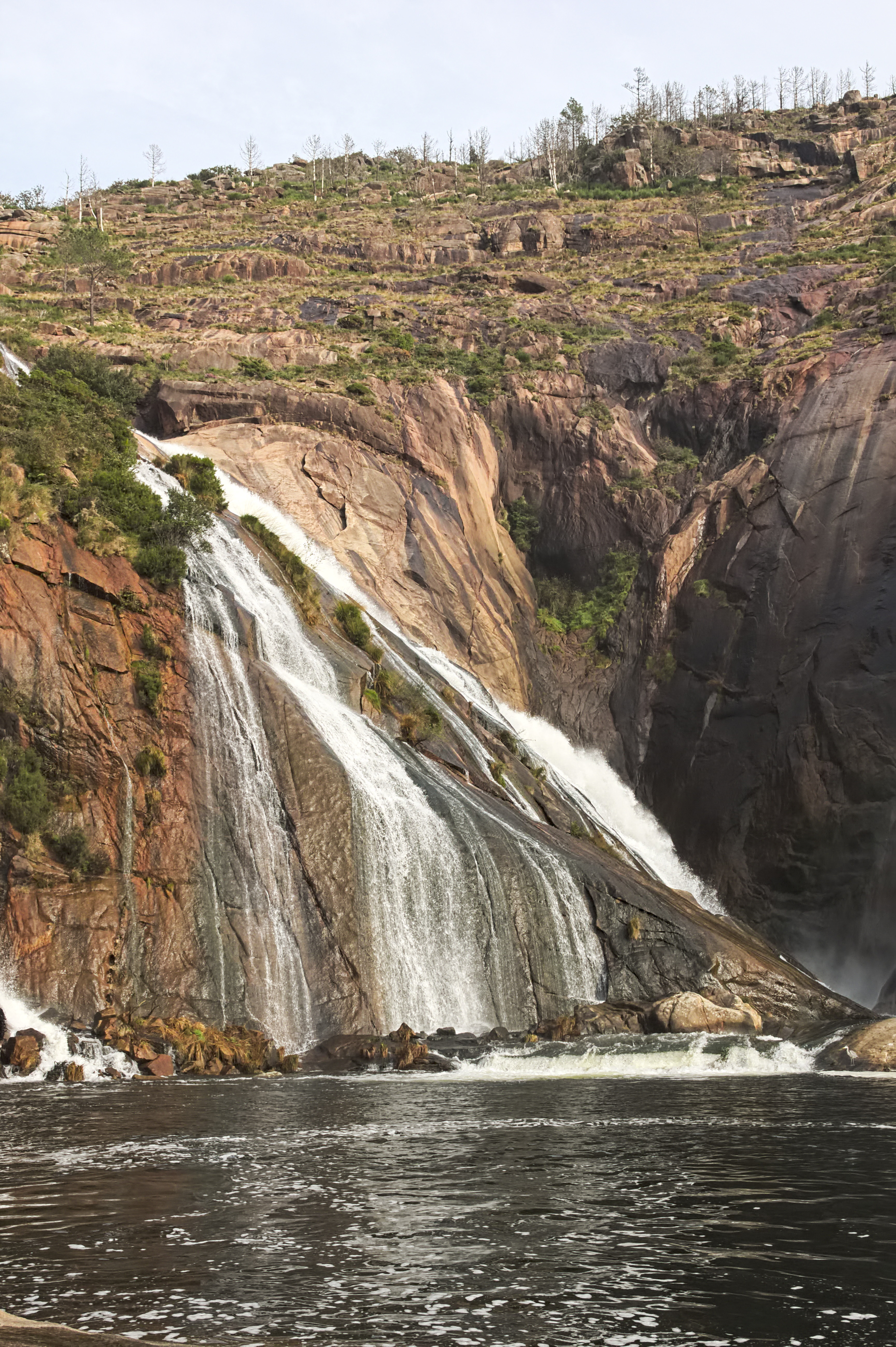 Waterfall in the Xallas river, in Ézaro (Dumbría), Galicia, Spain.